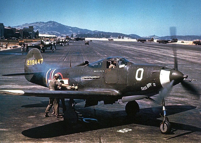 Two mechanics crank the handle of a USAAF Bell P-39Q-1-BE Airacobra, at Hamilton Army Airfield, California (USA), in July of 1943. The aircraft "Saga Boy II" (serial no. 42-19447) belonged to Lt.Col. Edward S. Chickering, commander of the 357th Fighter Group. When the Group moved to Great Britain in November 1943, it was reequipped with the North American P-51 Mustang.